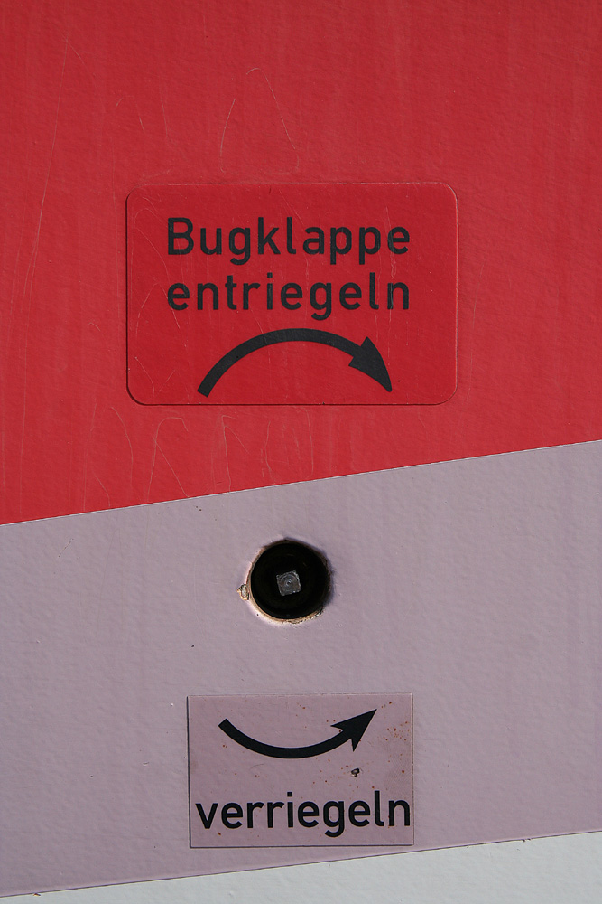 A switch to manually lock/unlock the front hatch of the ICE S.